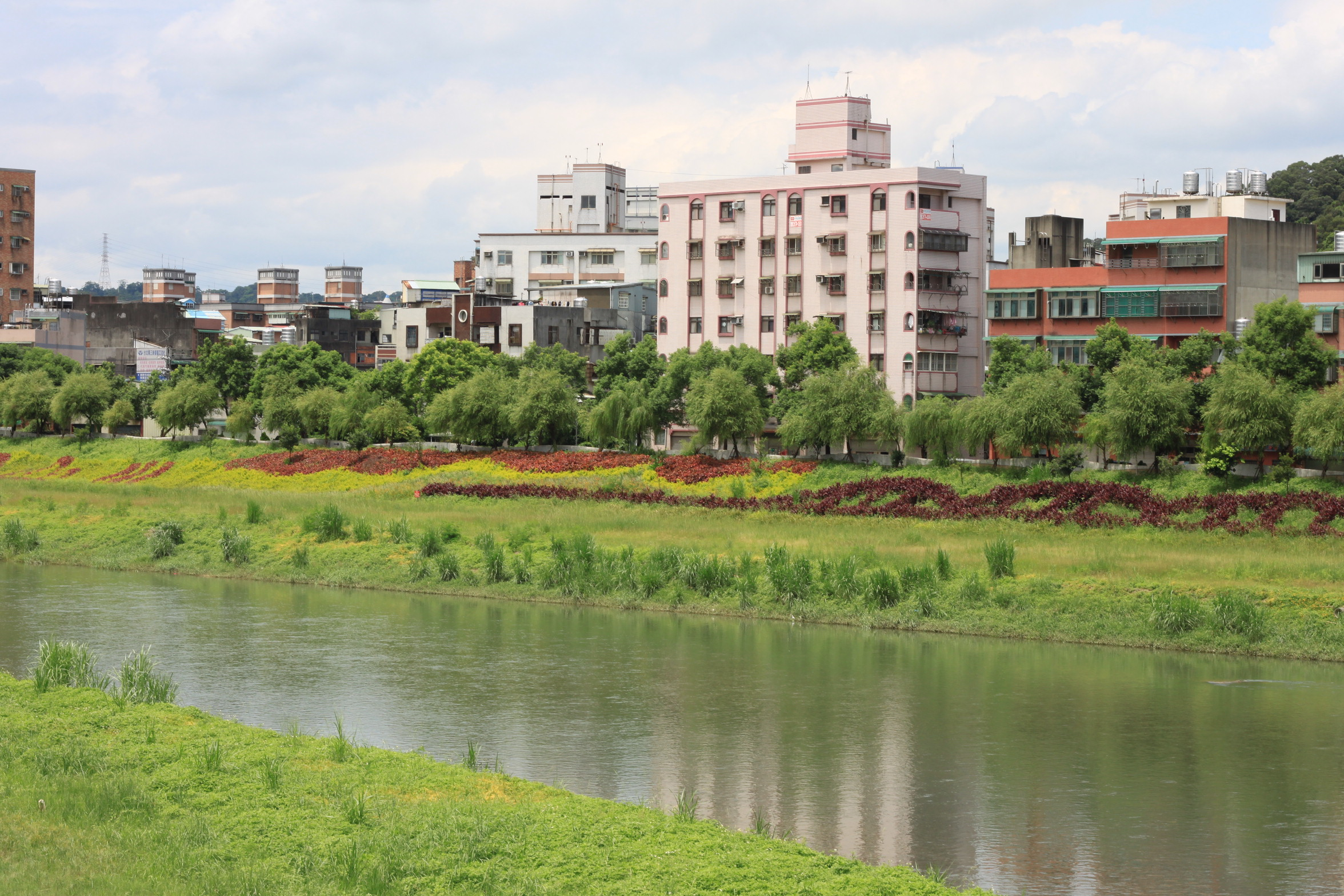 View of Sanxia River from Changfu Bridge in Sanxia District, New Taipei, Taiwan.Bân-lâm-gú: 佇臺灣新北市三峽長福橋看落來的三峽河。